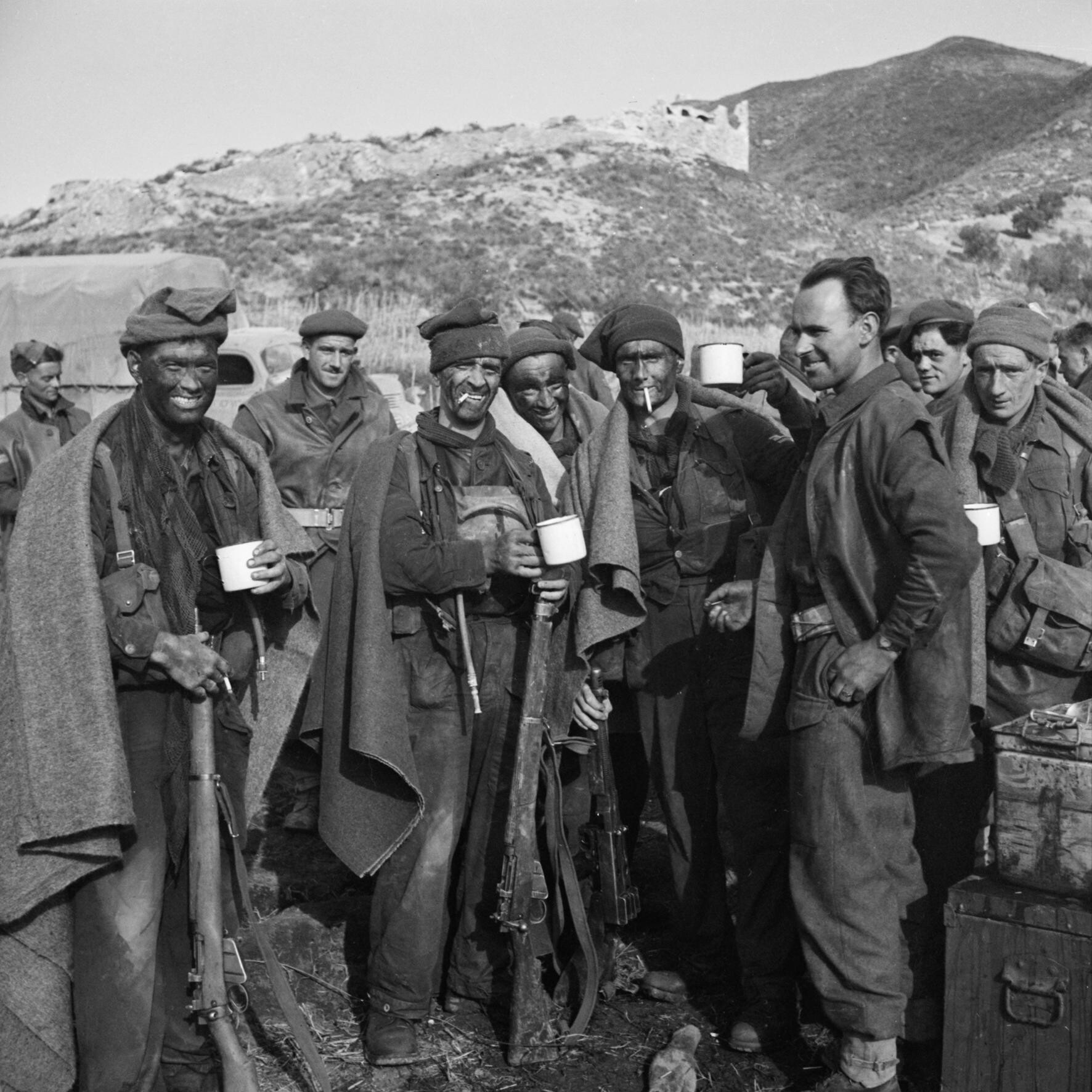 THE BRITISH ARMY IN ITALY 1943. Men from No. 9 Commando, British Army, the morning following a night raid near the Garigliano river.